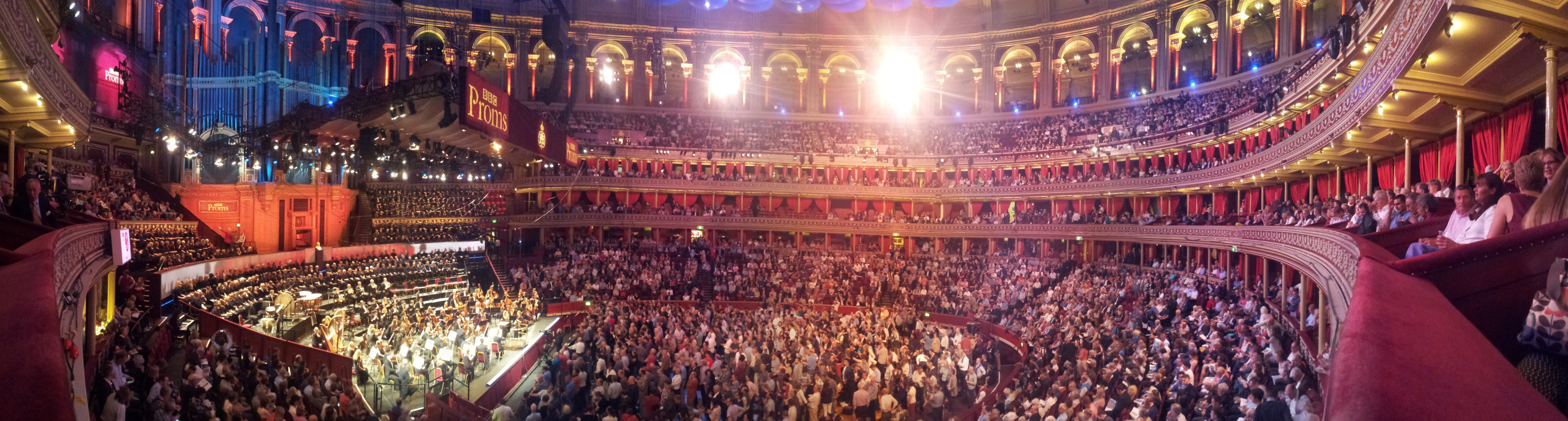 A panorama inside the Royal Albert Hall during the 2015 BBC Proms.